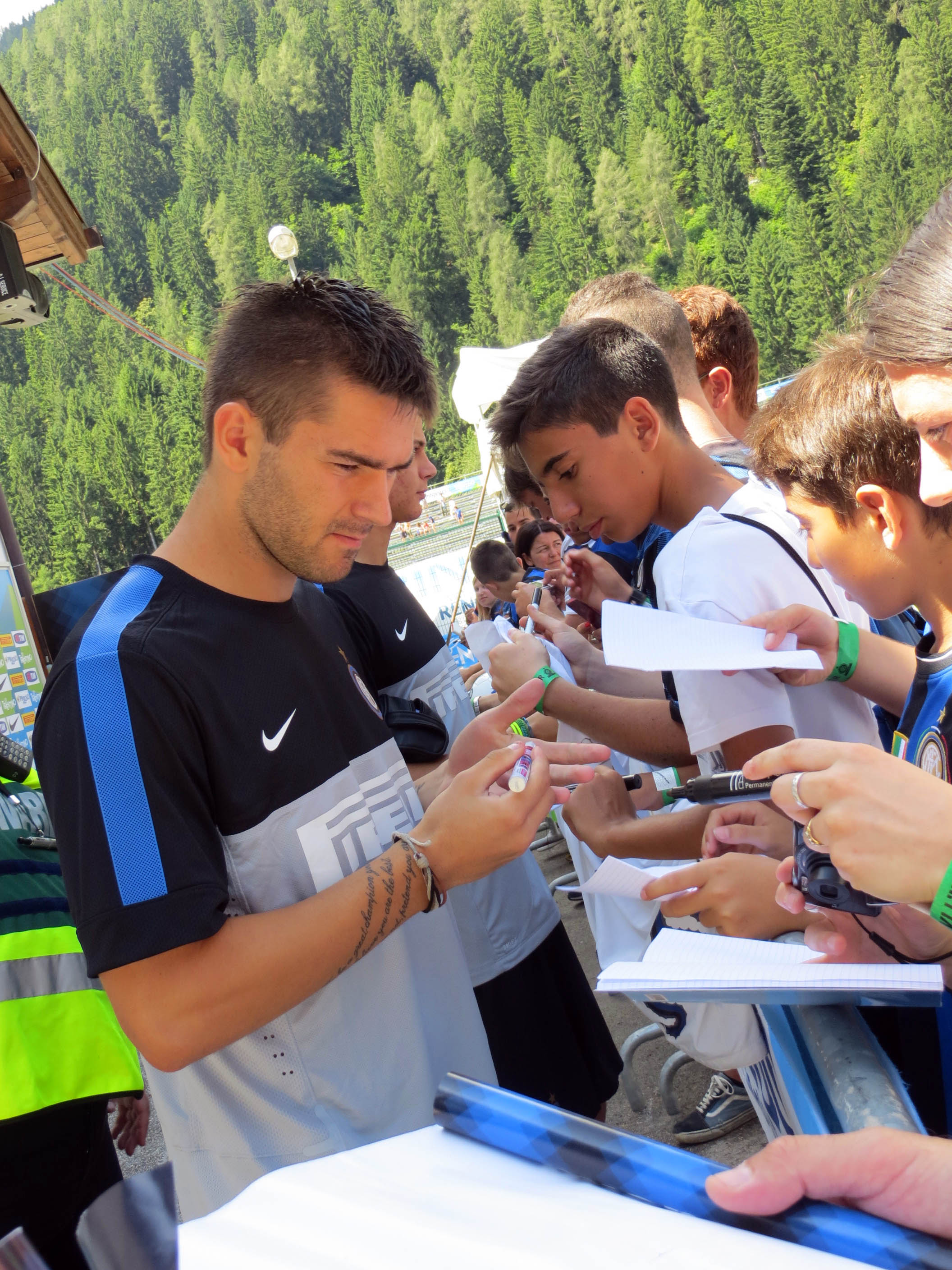 Marko Livaja signing autographs for Inter fans.